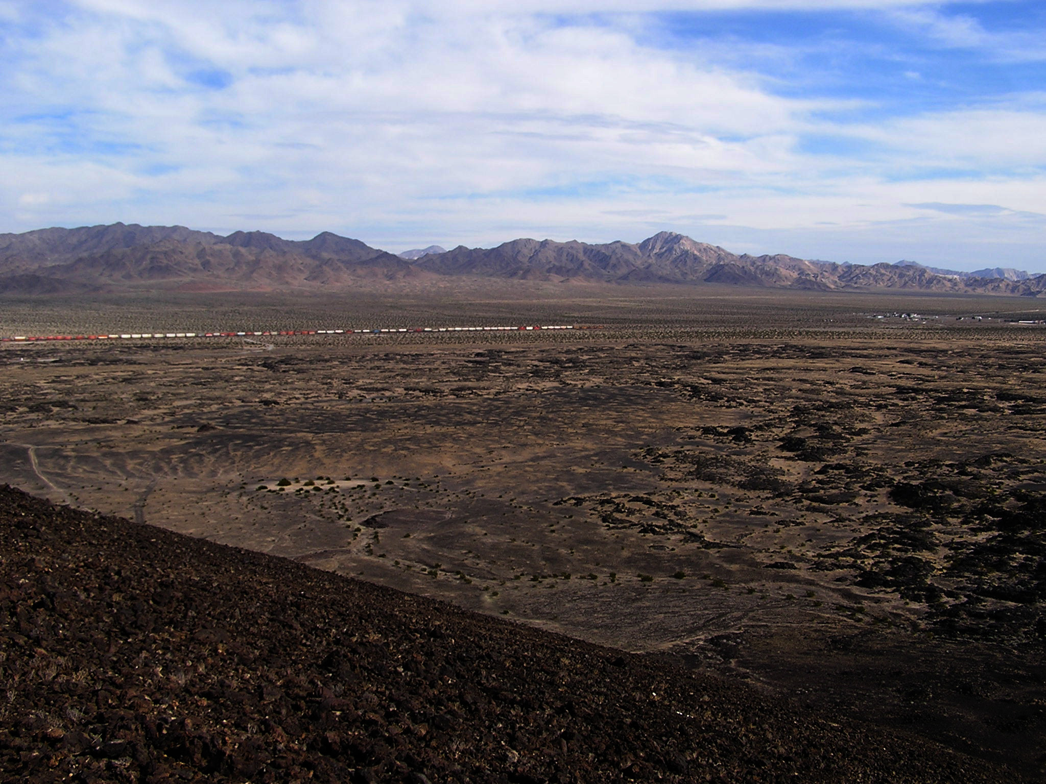 Southeast end of the Bristol Mountain Range in the Mojave Desert of California, United States of America. The photo was taken from Amboy Crater looking north. The town of Amboy can be seen on the right side of the image.